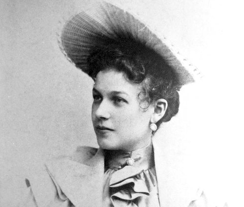 Russian singer Anastasia Vyaltseva (1871-1913)